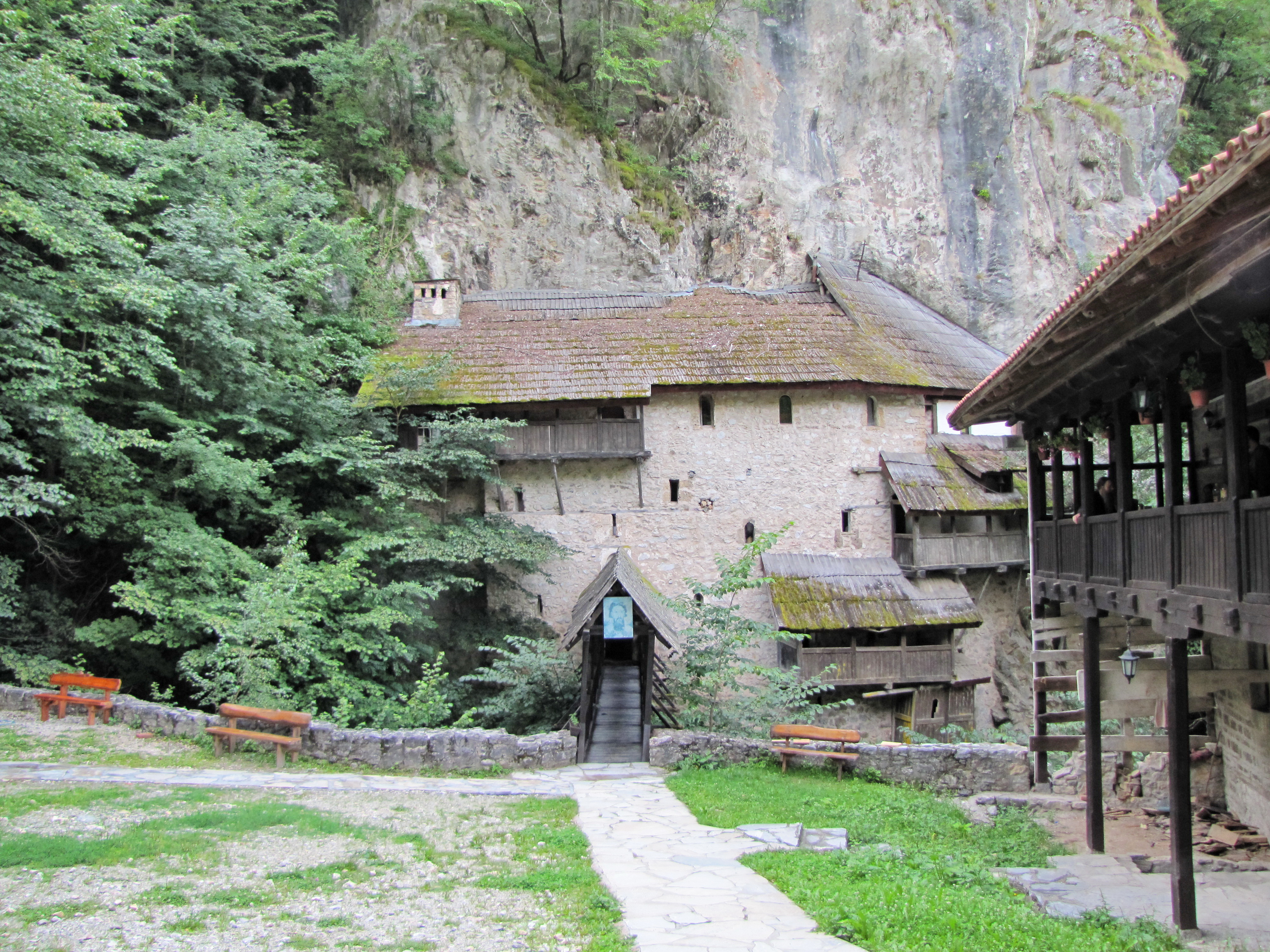 Monastery Crna Reka near Tutin (SW Serbia).